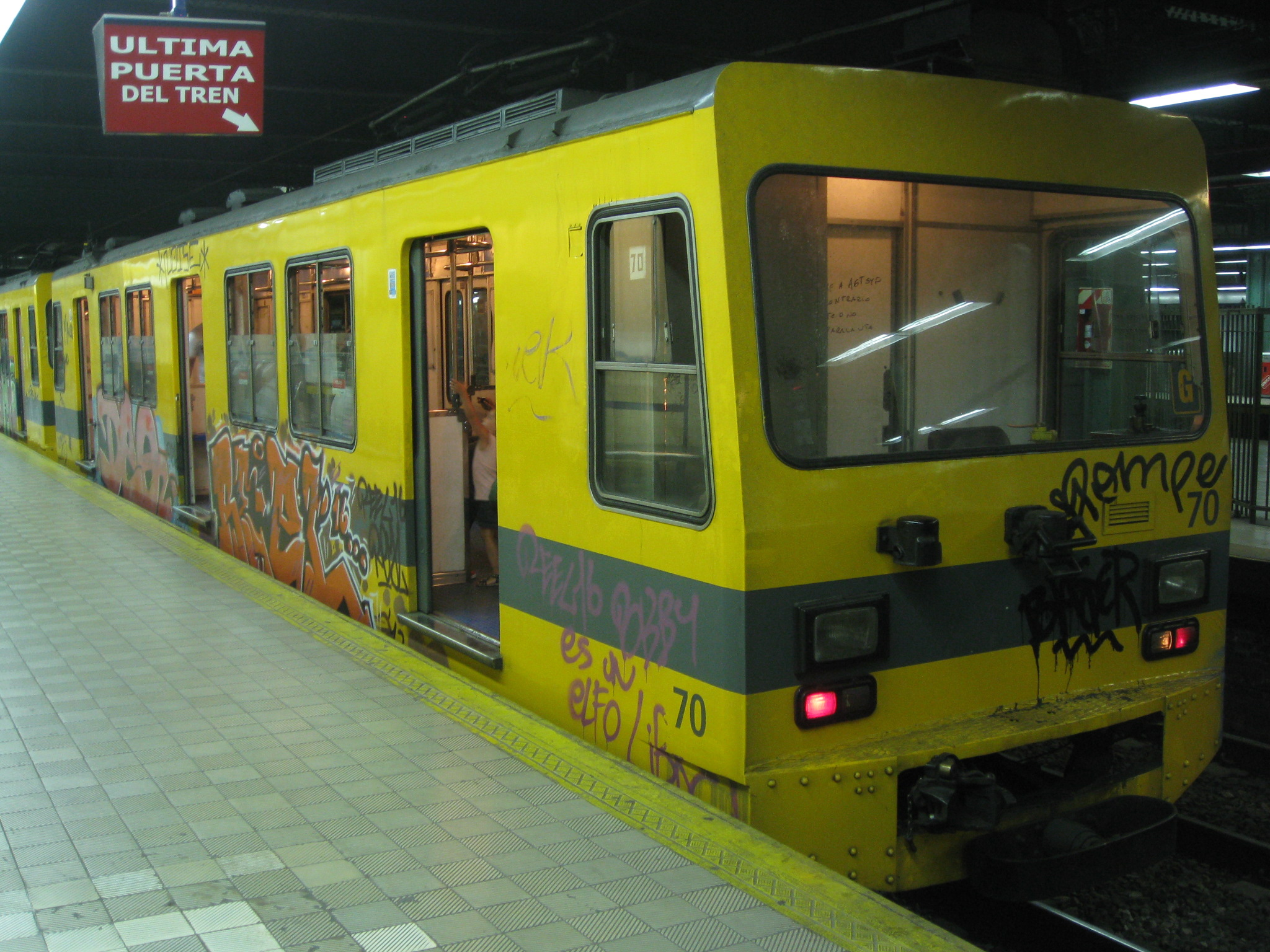 Fleets on subway line A in Buenos Aires.